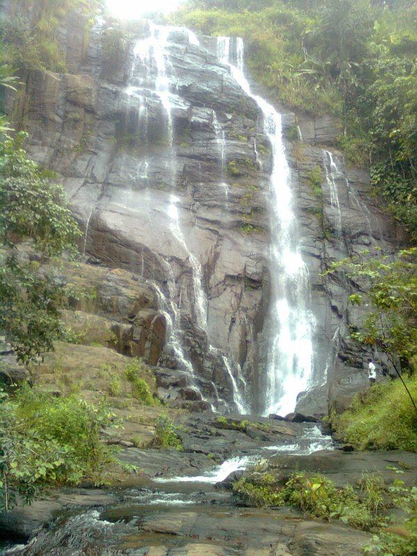 A waterfall in my village. wanted to load into wiki